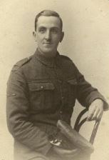 A circa 1915 photograph of English golfer and golf course architect Herbert H. Barker (1883-1924). He is wearing his World War I era Royal Air Force uniform.